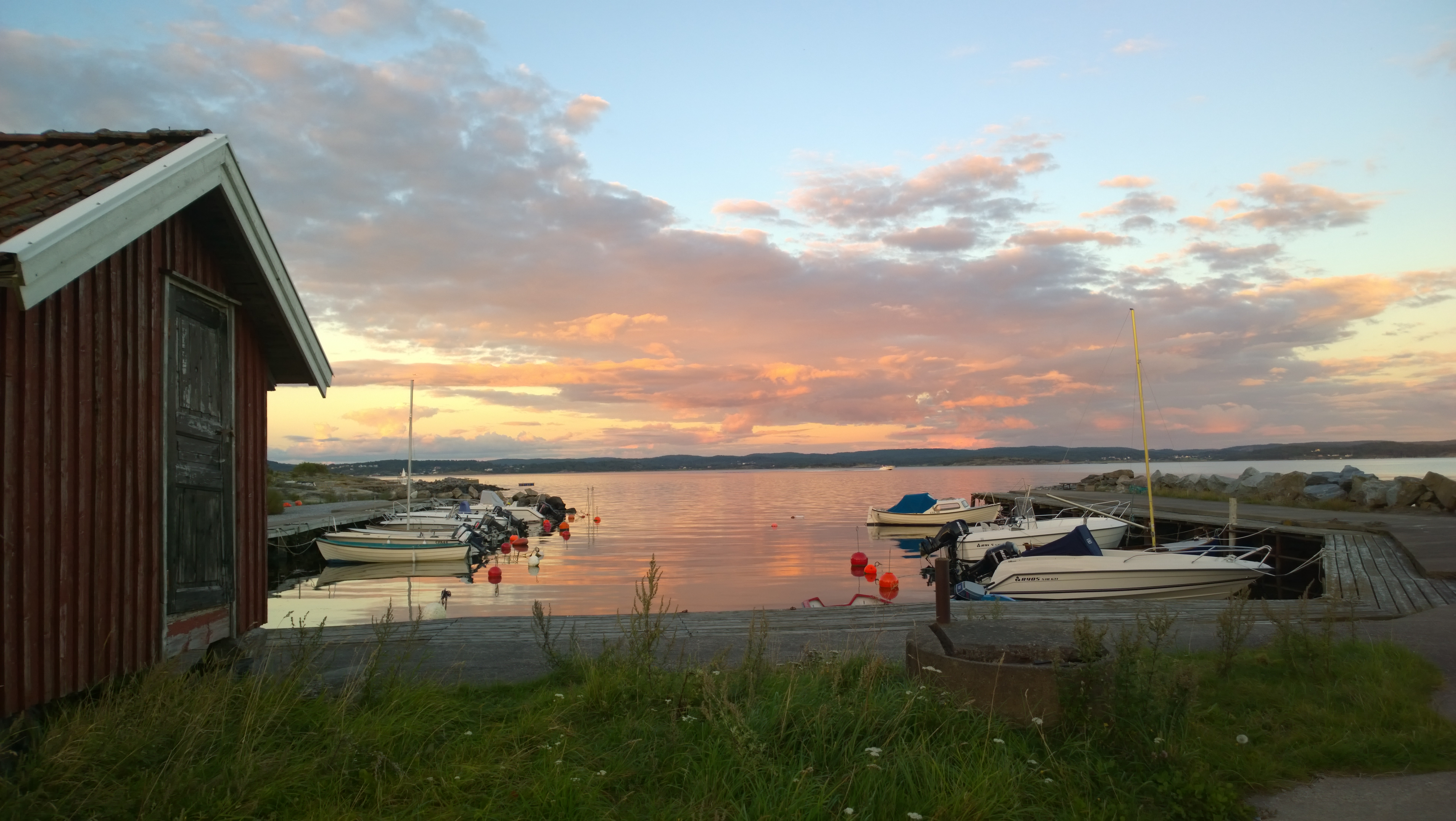 Late summer sunset over Berga Strand marina, Tjörn.